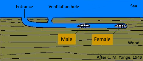 Limnoria lignorum; based on File:Limnoria lig.JPG with English captions and a crop